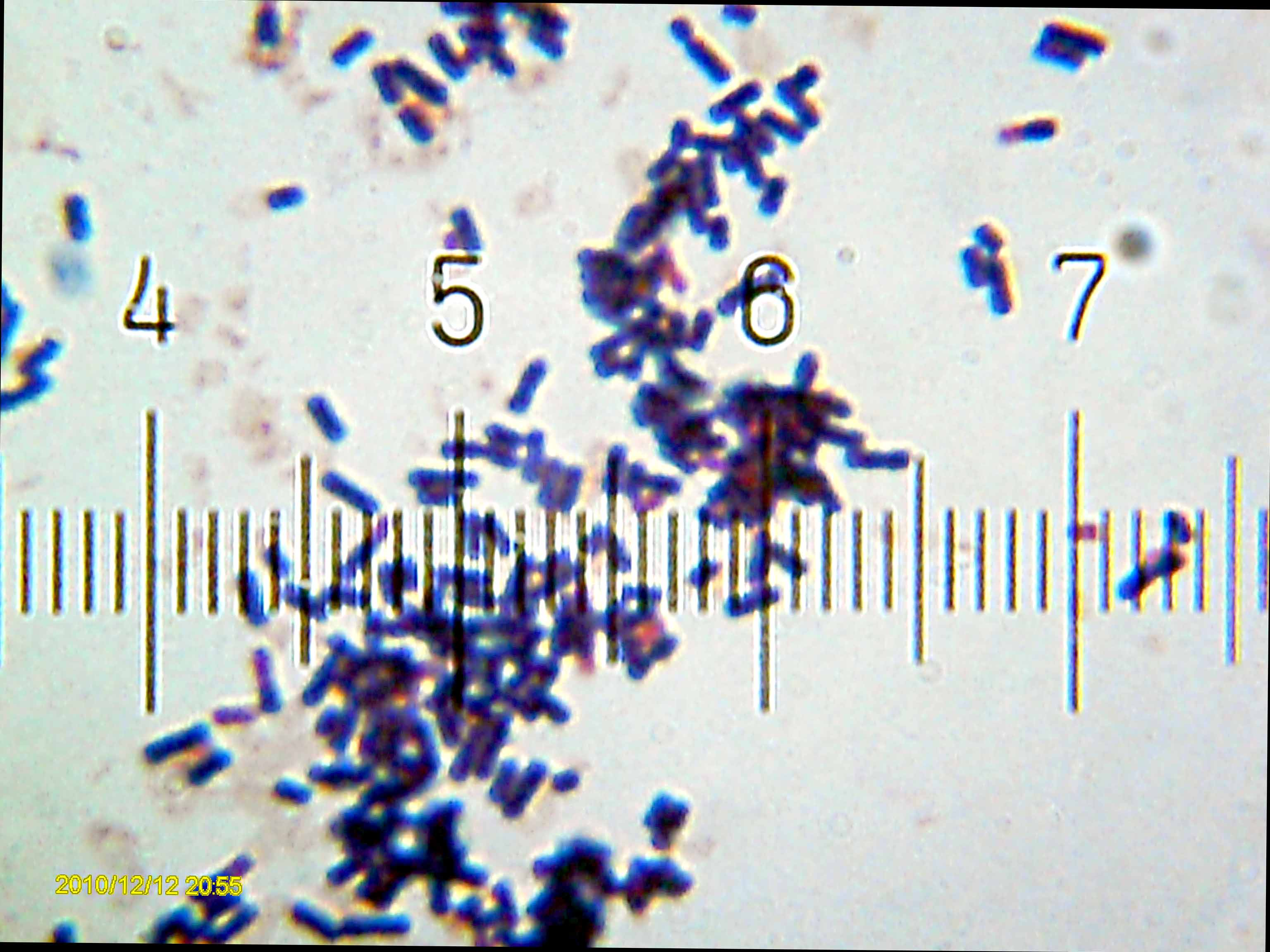 Lactobacillus acidophilus from a commercially-sold nutritional supplement tablet. 100× objective, 15× eyepiece; numbered ticks are 11 µM apart. Gram stained. The scale of the full-sized version of this image is such that each pixel is a 0.01477-µM square.